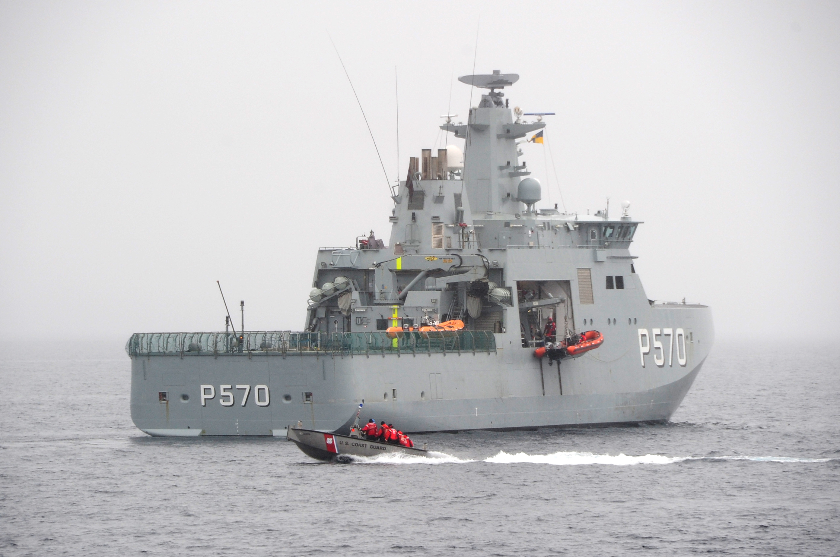 Davis STRAITS -- A small-boat crew from the U.S. Coast Guard Cutter Alder approaches the Royal Danish navy ship HMDS Knud Rasmussen during a personnel transfer and crew exchange, August 16, 2010. Alder is underway as part of Operation Nanook, one of three major operations conducted per year in the Canadian Arctic, designed to demonstrate international cooperation and expand the international ability to respond to emergencies in the Arctic. (U.S. Coast Guard photo by Petty Officer 3rd Class George Degener).